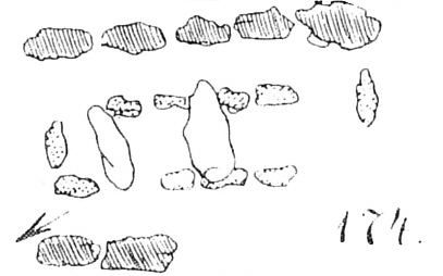 Outline of the dolmen Winterfeld, Saxony-Anhalt